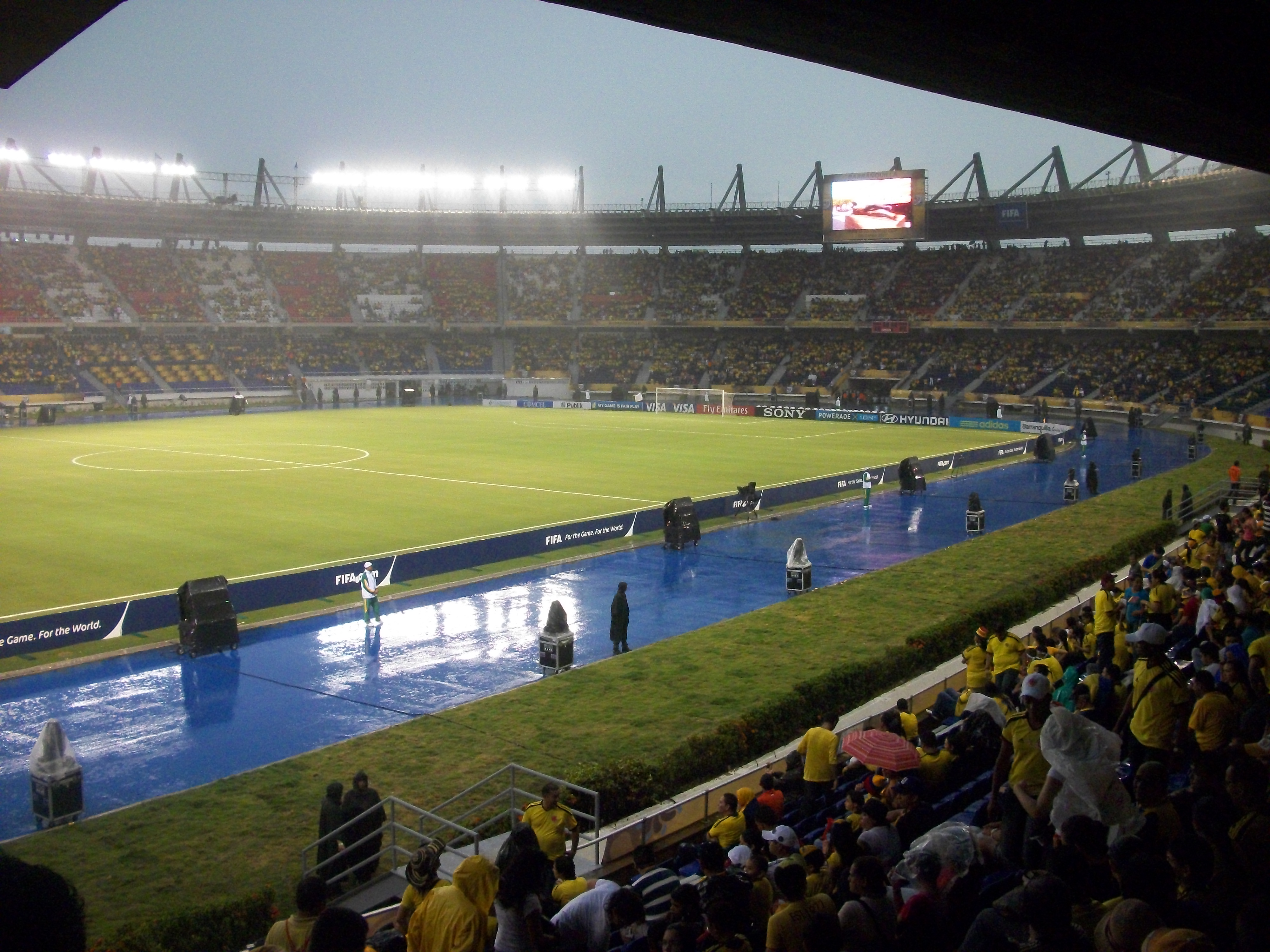 Estadio Metropolitano Roberto Melendez of Barranquilla in the opening World Cup FIFA U-20 Colombia 2011